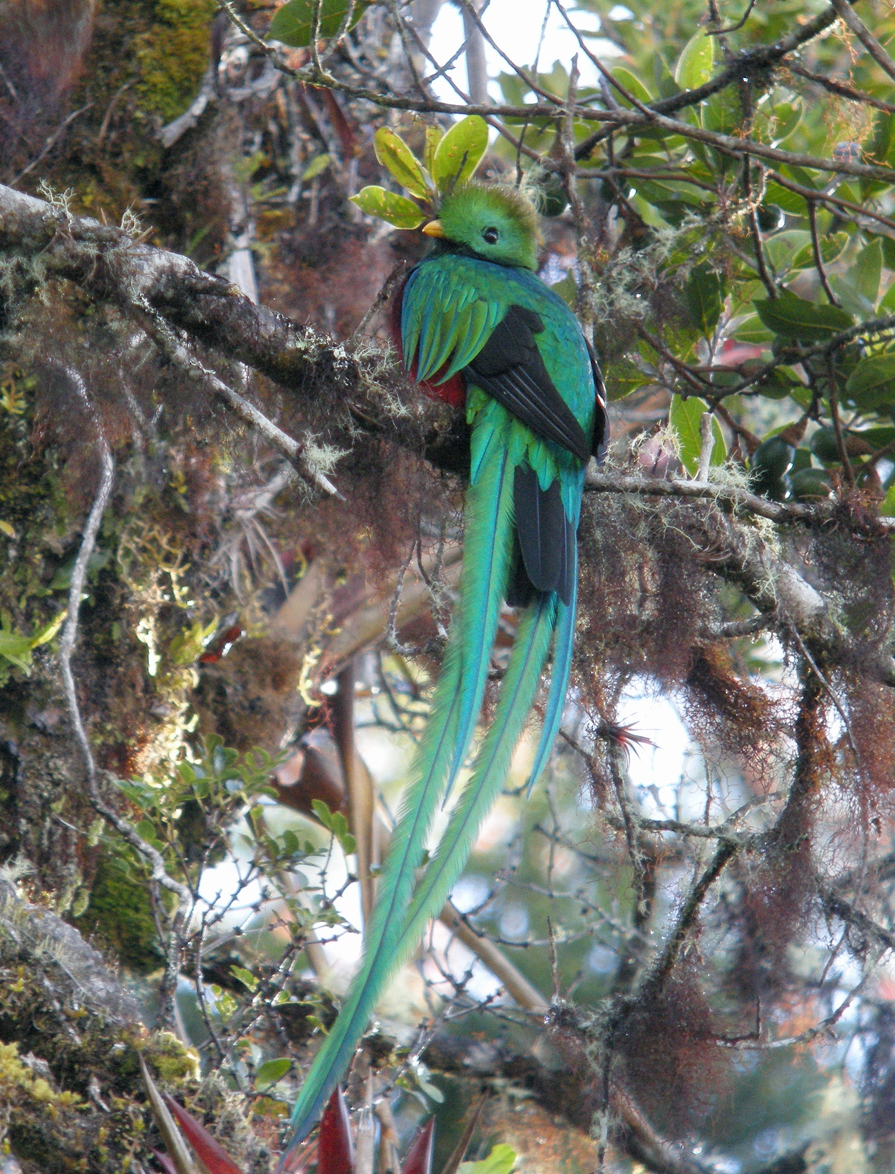 Resplendent Quetzal (Pharomachrus mocinno), Mirador de Quetzales, Parque Nacional Los Quetzales, Costa Rica